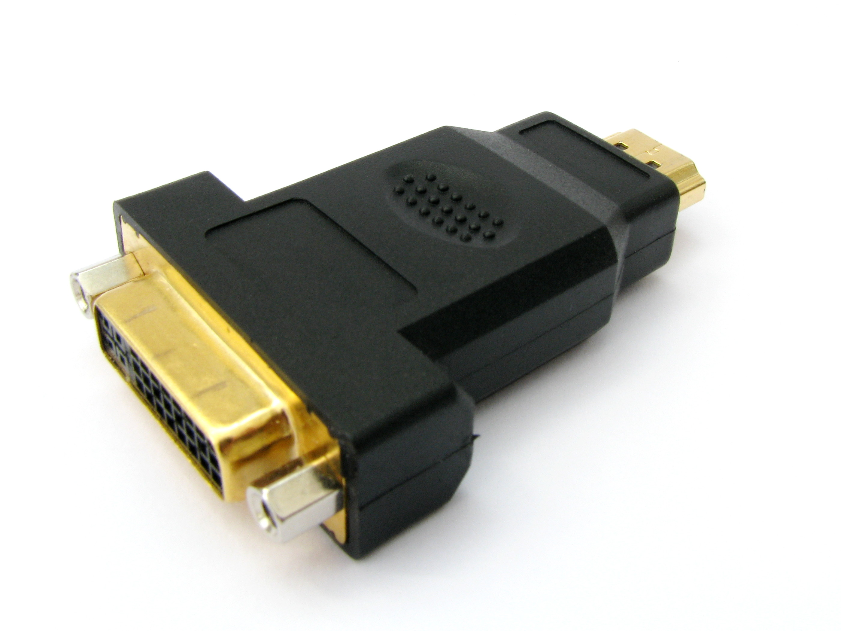 Photo of an DVI-HDMI-Adapter